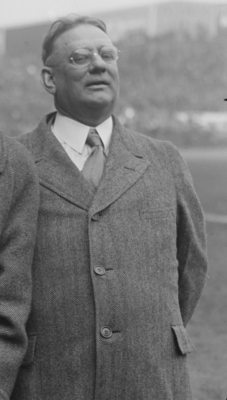 New York Yankees' co-owner Tillinghast Huston at the opening of Yankee Stadium, April 18, 1923. →This file has been extracted from another file: Jacob Ruppert at Yankee Stadium.jpg.